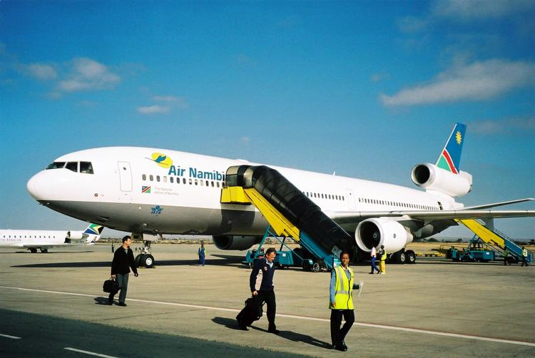 Air Namibia McDonnell Douglas MD-11